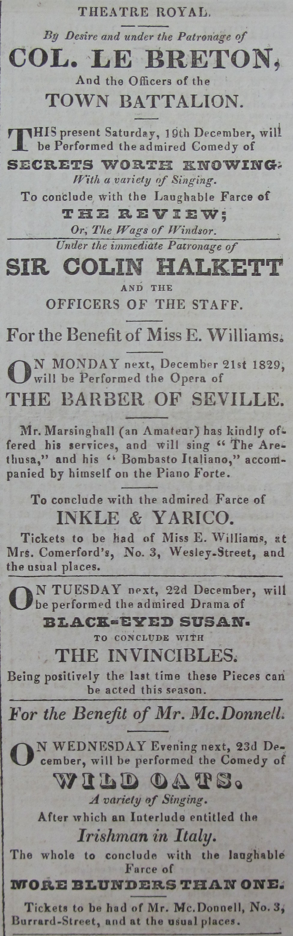 Advertisement for the programme at the Theatre Royal, Jersey: 19 December 1829 - The Barber of Seville; Inkle and Yarico; Wild Oats